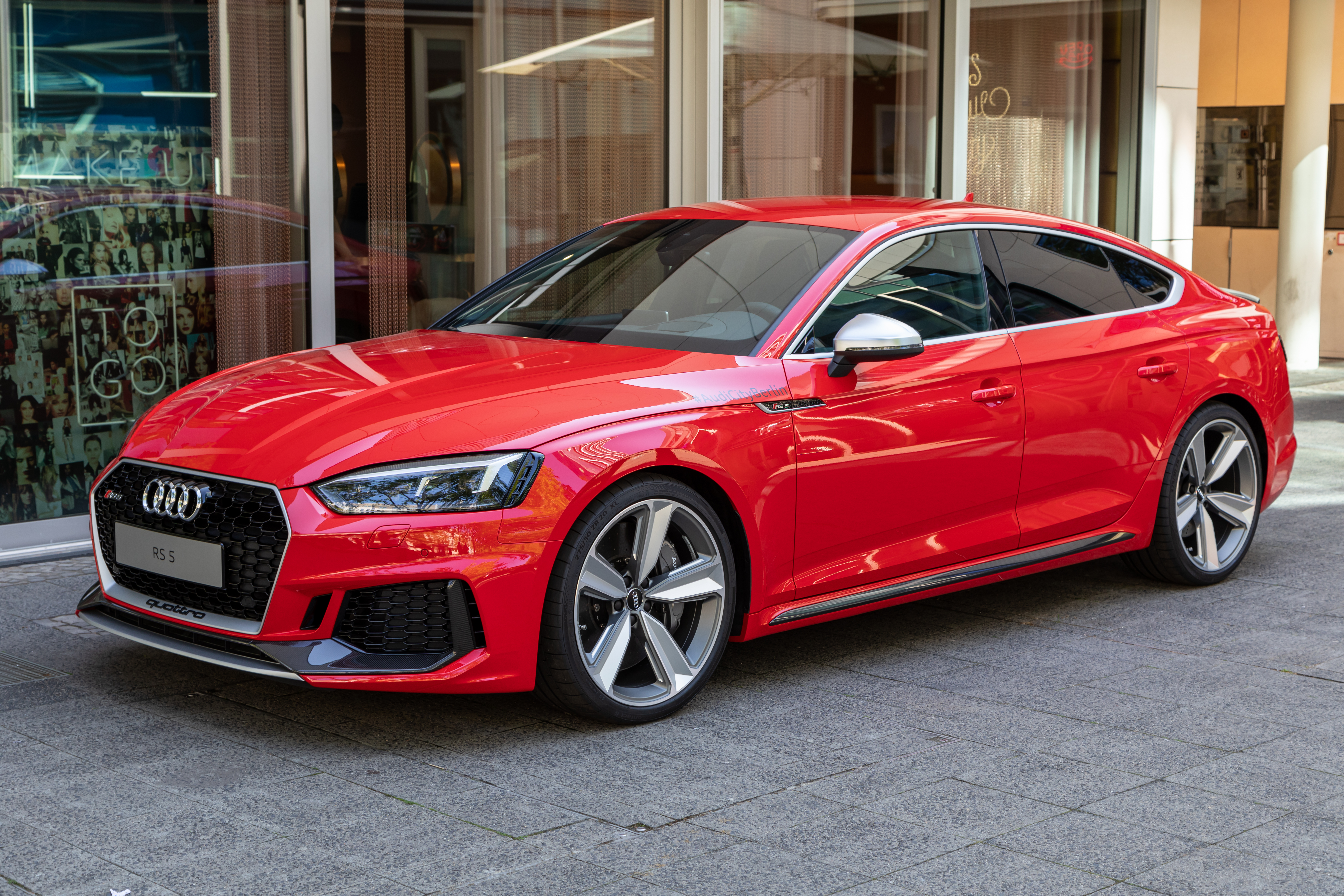 Classic Days Berlin 2019, Kurfürstendamm, Berlin-Charlottenburg